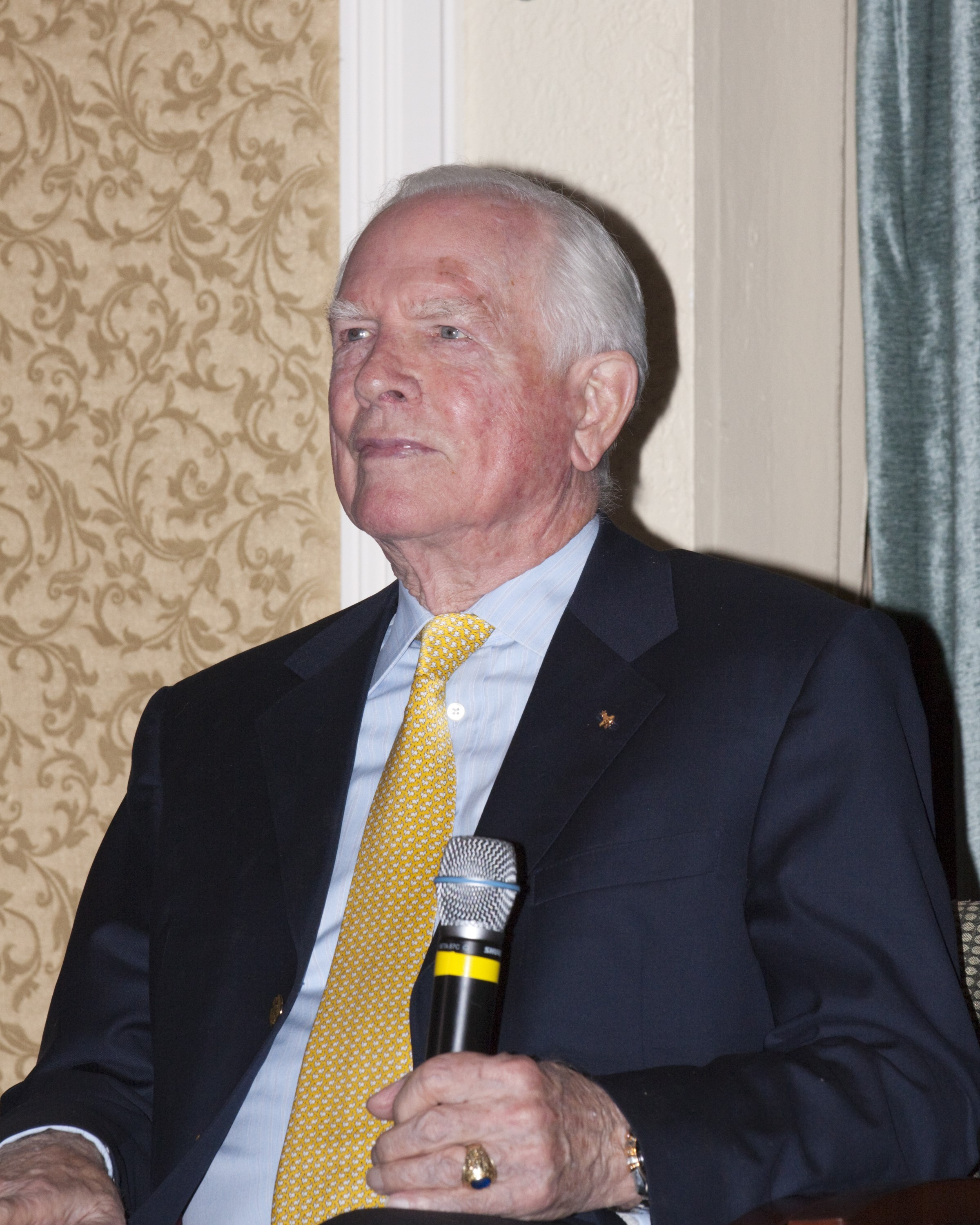 Gemini 9, Apollo 9 and 15 astronaut David Scott speaks to guests gathered for the Astronaut Scholarship Foundation's dinner at the Radisson Resort at the Port in Cape Canaveral celebrating the 40th anniversary of Apollo 17. The gala commemorating the anniversary of Apollo 17 included mission commander Eugene Cernan and other astronauts who flew Apollo missions. Launched Dec. 7, 1972, Cernan and lunar module pilot Harrison Schmitt landed in the moon's Taurus-Littrow highlands while command module pilot Ronald Evans remained in lunar orbit operating a scientific instrument module.